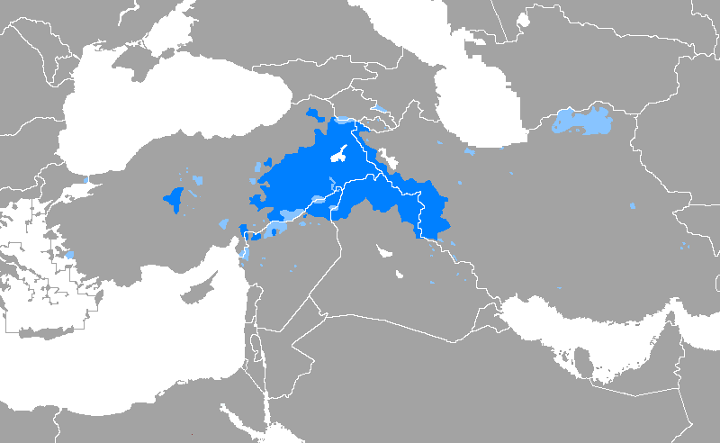 based on sourses Laki is a branch of southern Kurdish. i added Lakish parts.